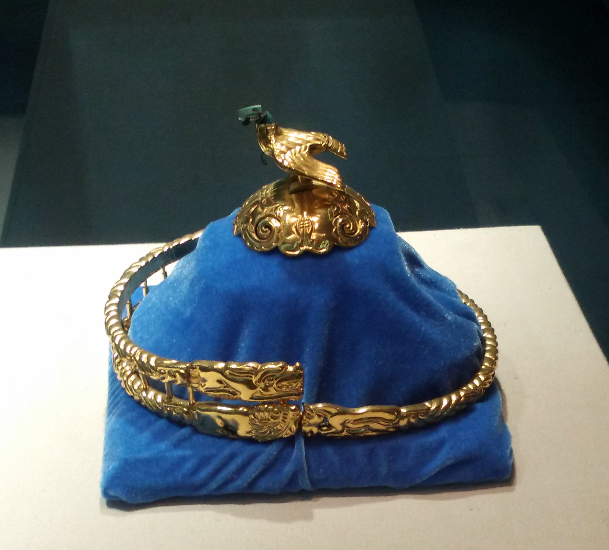 The gold crown of Xiongnu King.